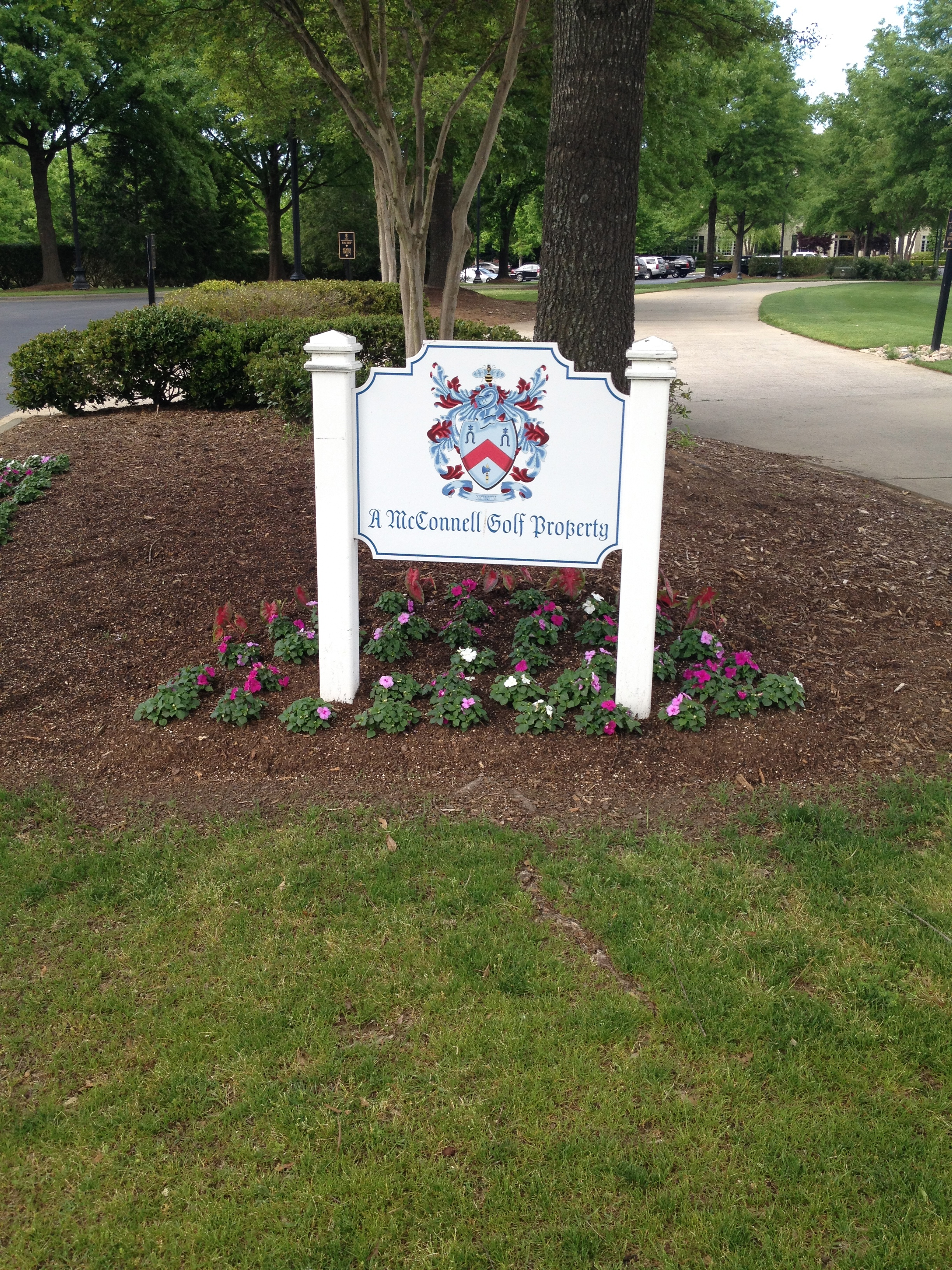 Sign indicating TPC Wakefield is a property of McConnell Golf.